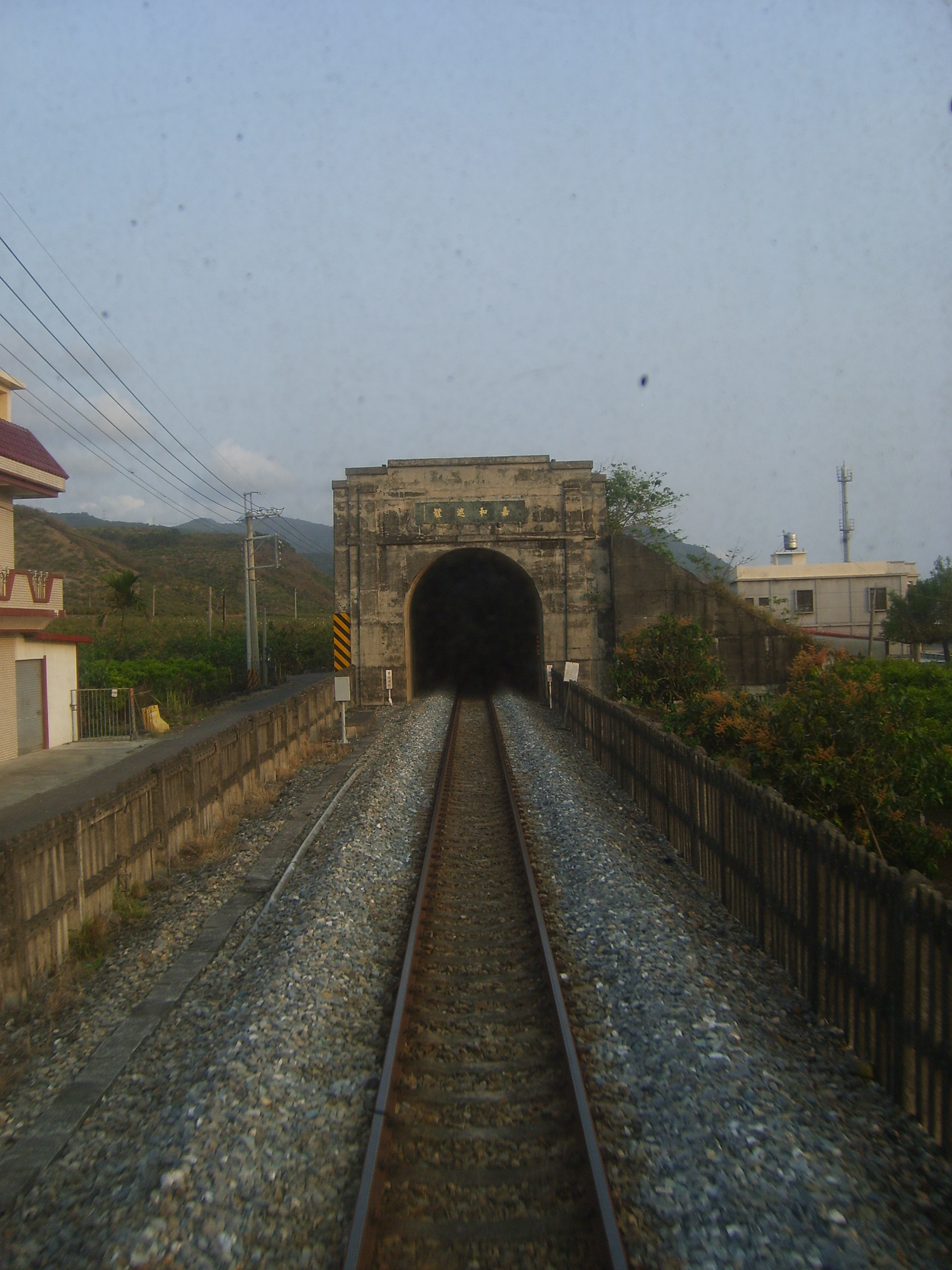 "Chiahe Shelter" is situated on Taiwan South-Link Line between Neishih Station and Jialu Station,it is the only railway tunnel in Taiwan which was built to defend the railway from bomb attack.